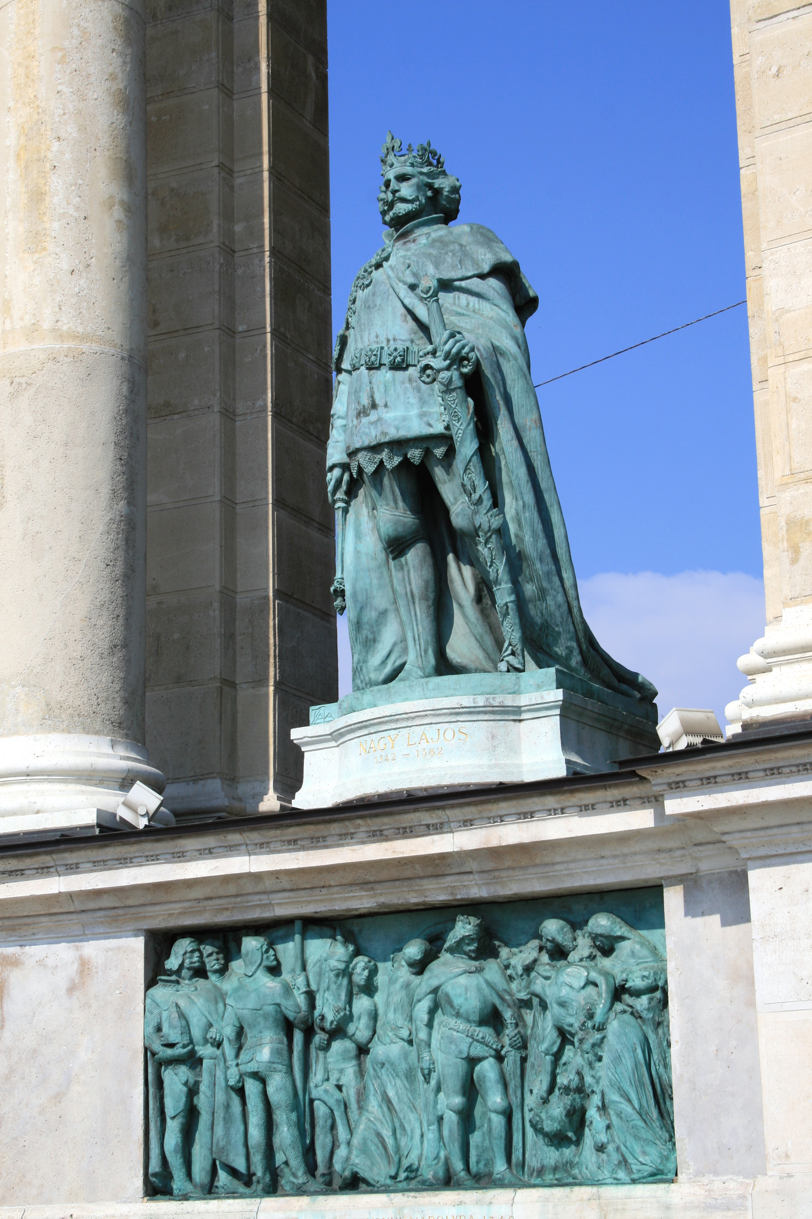 Statue of Louis I of Hungary - Louis I of Poland and Hungary, Millenium Monument on Heroes' square, Budapest, Budapest, Hungary